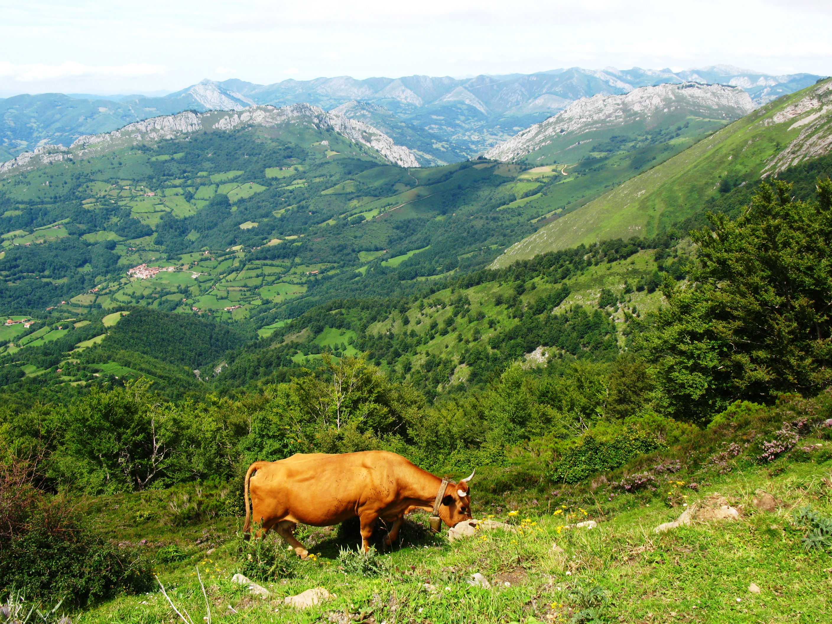 This is a photography of a Special Area of Conservation in Spain with the ID: ES1200008. Natura2000 entry, EEA entry